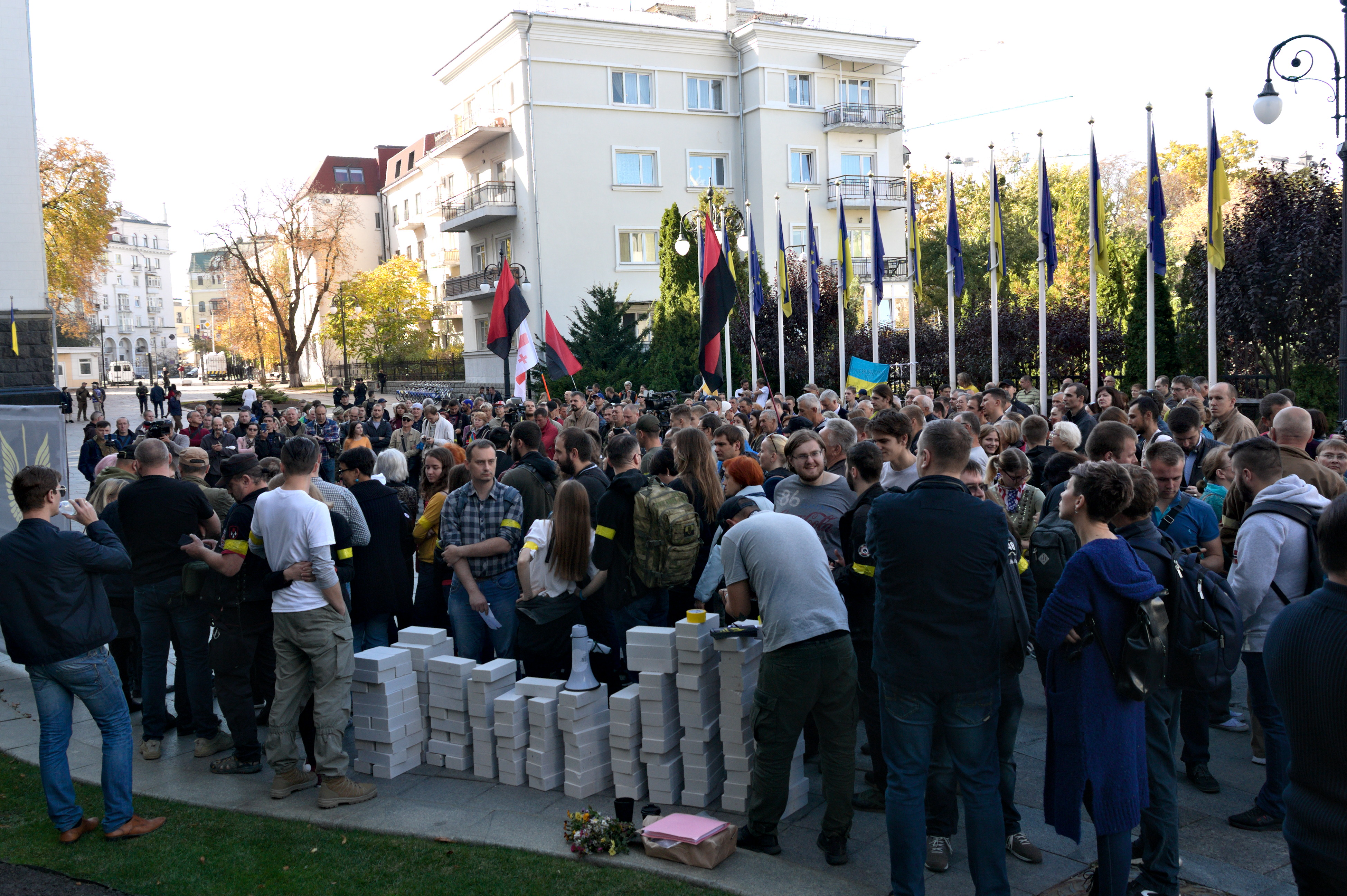 NO to capitulation! Protests in Kyiv. Oct 14, 2019